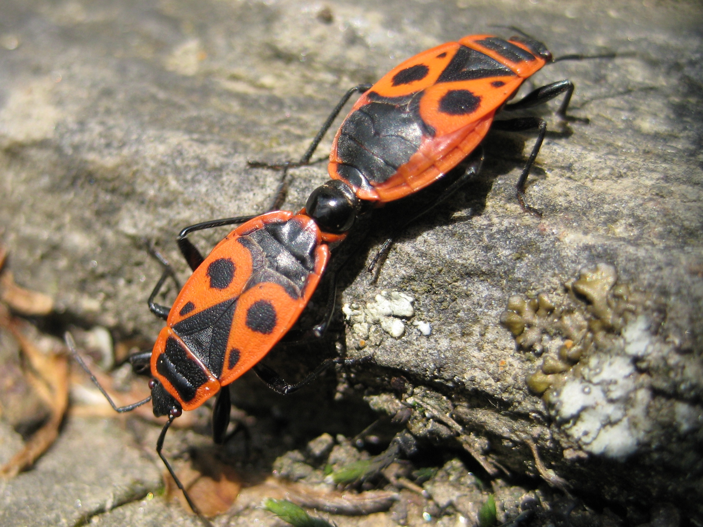 Mating Firebugs